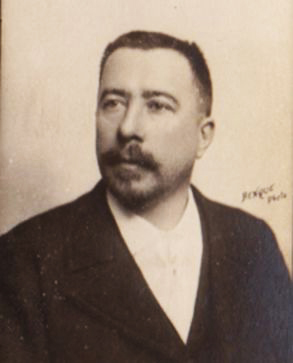 French composer Georges Fragerolle in 1908